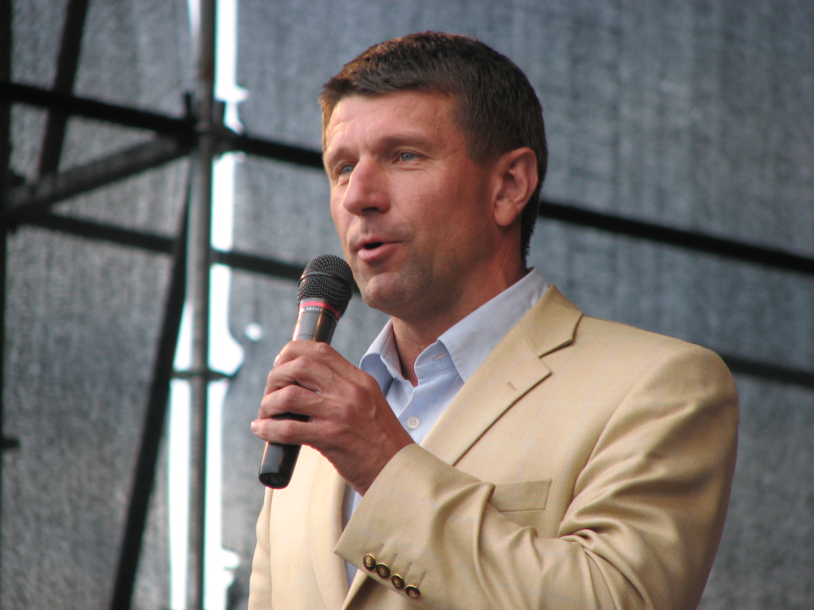 Estonian businessman Ain Kaljurand at the opening ceremony of Tallinn Maritime Days